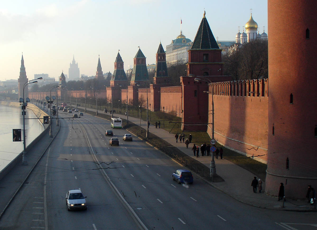 Kremlin Embankment, January 1, unusually quiet